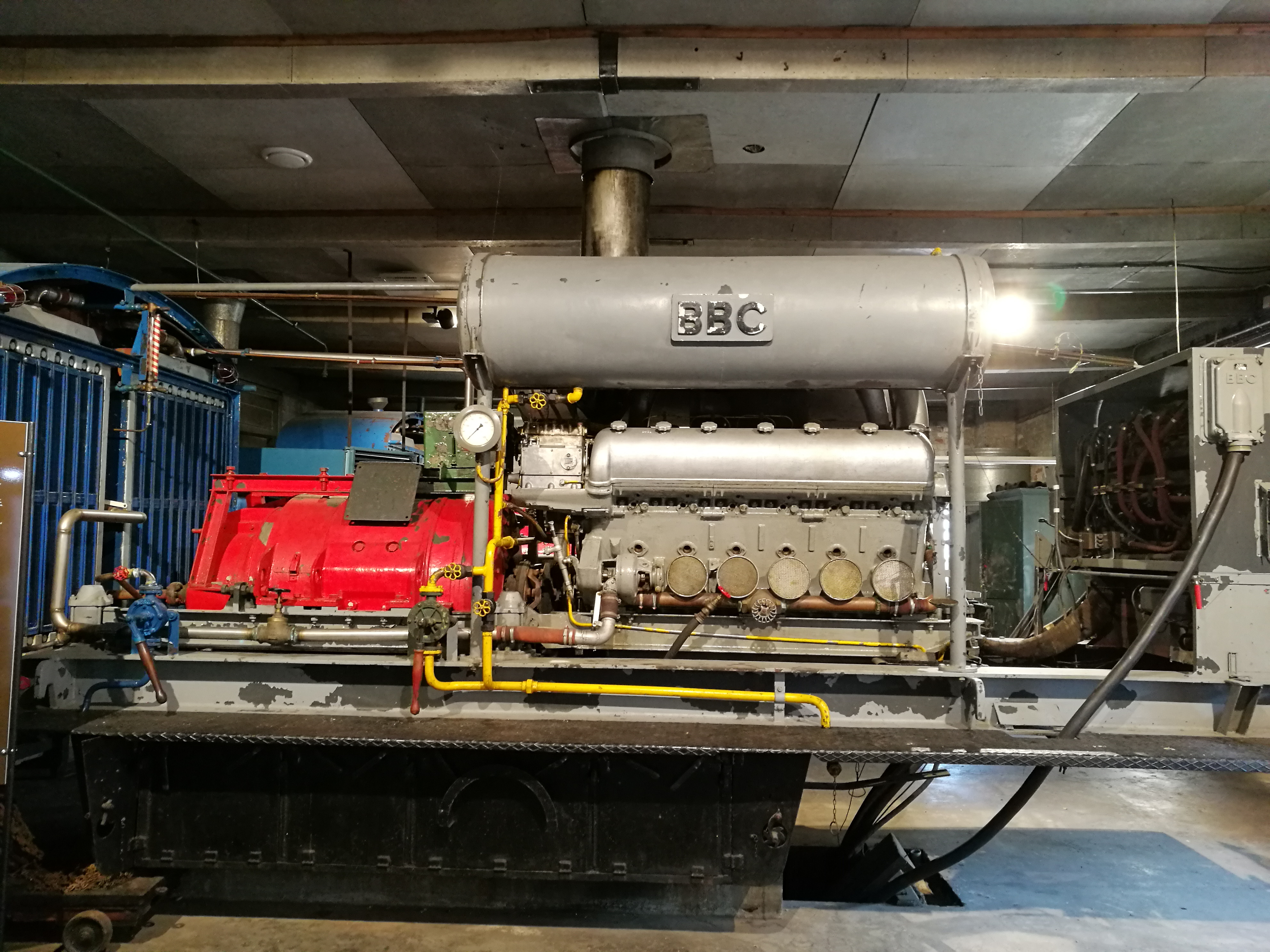 The degaussing facility of Lonna.